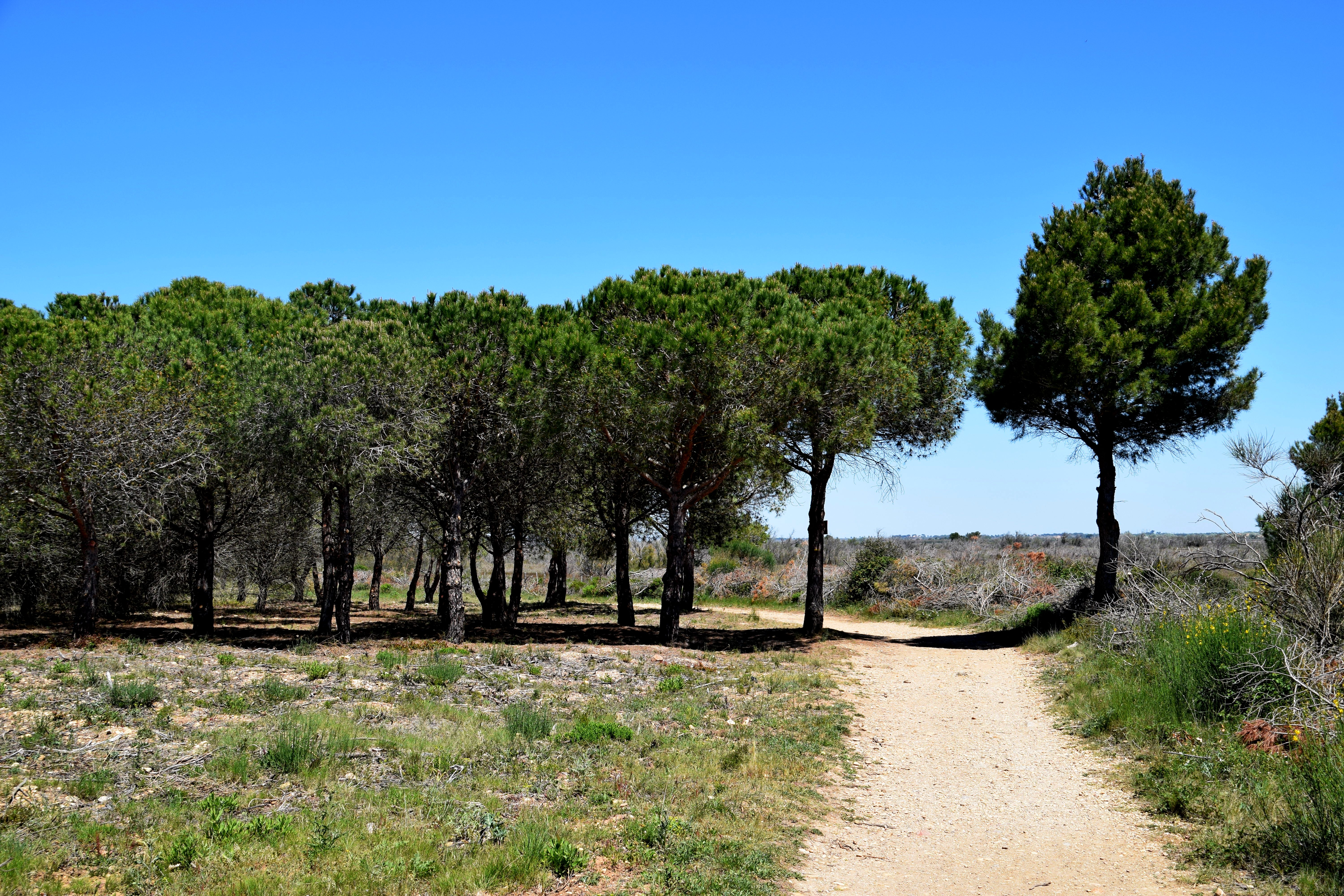 Pinus halepensis in Parc naturel régional de la Narbonnaise en Méditerranée, south of France